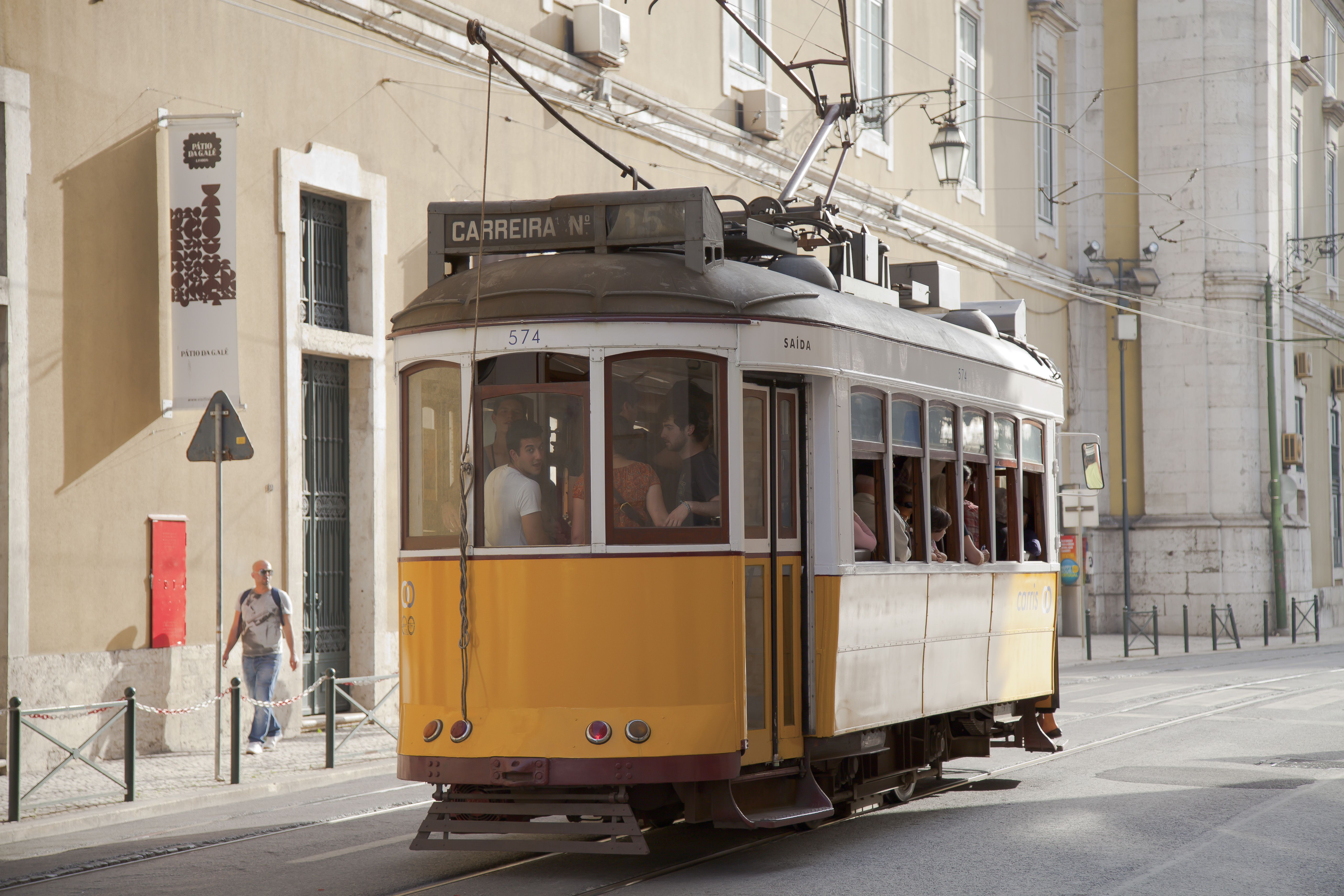 Tram 574 of the line 15E in Rua Arsenal, Lisbon, Portugal